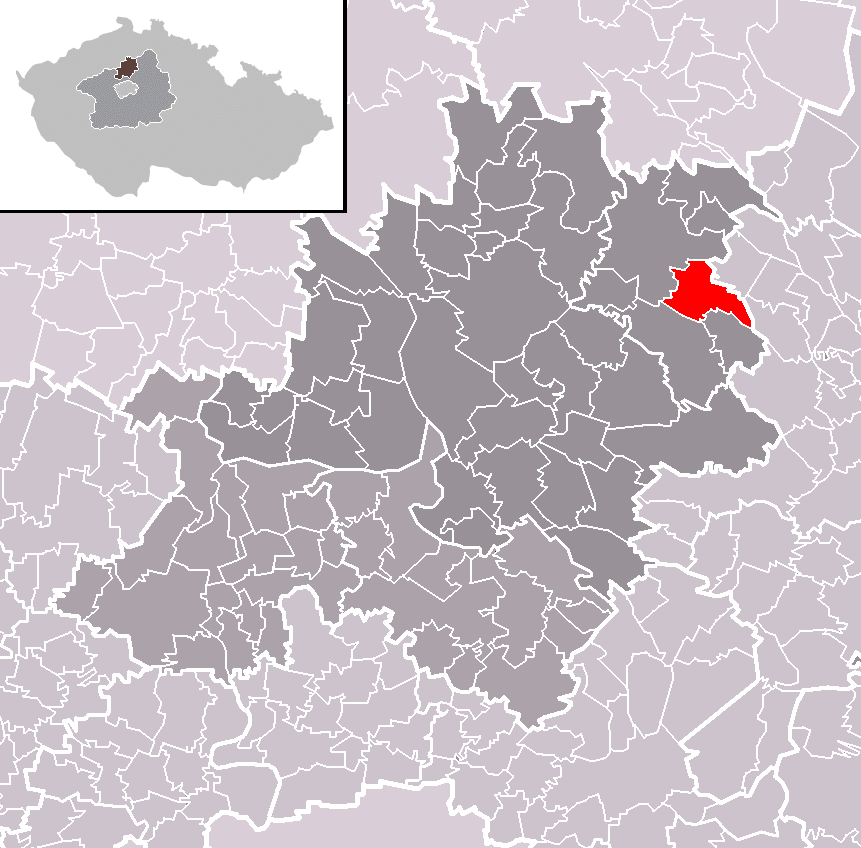 Location of Stránka municipality within Mělník District and administrative area of Mělník as a Municipality with Extended Competence.